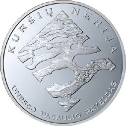 50 Litas coin dedicated to the Curonian spit (UNESCO World Heritage) Silver Ag 925 Quality proof Diameter 38.61 mm Weight 28.28 g The edge of the coin features patterns from the emblem of Neringa Designed by Rytas Jonas Belevicius Mintage 2,000 pcs Issued 2004 The coin was minted at the state enterprise Lithuanian Mint.